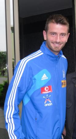 In Jachranka during EURO 2012.